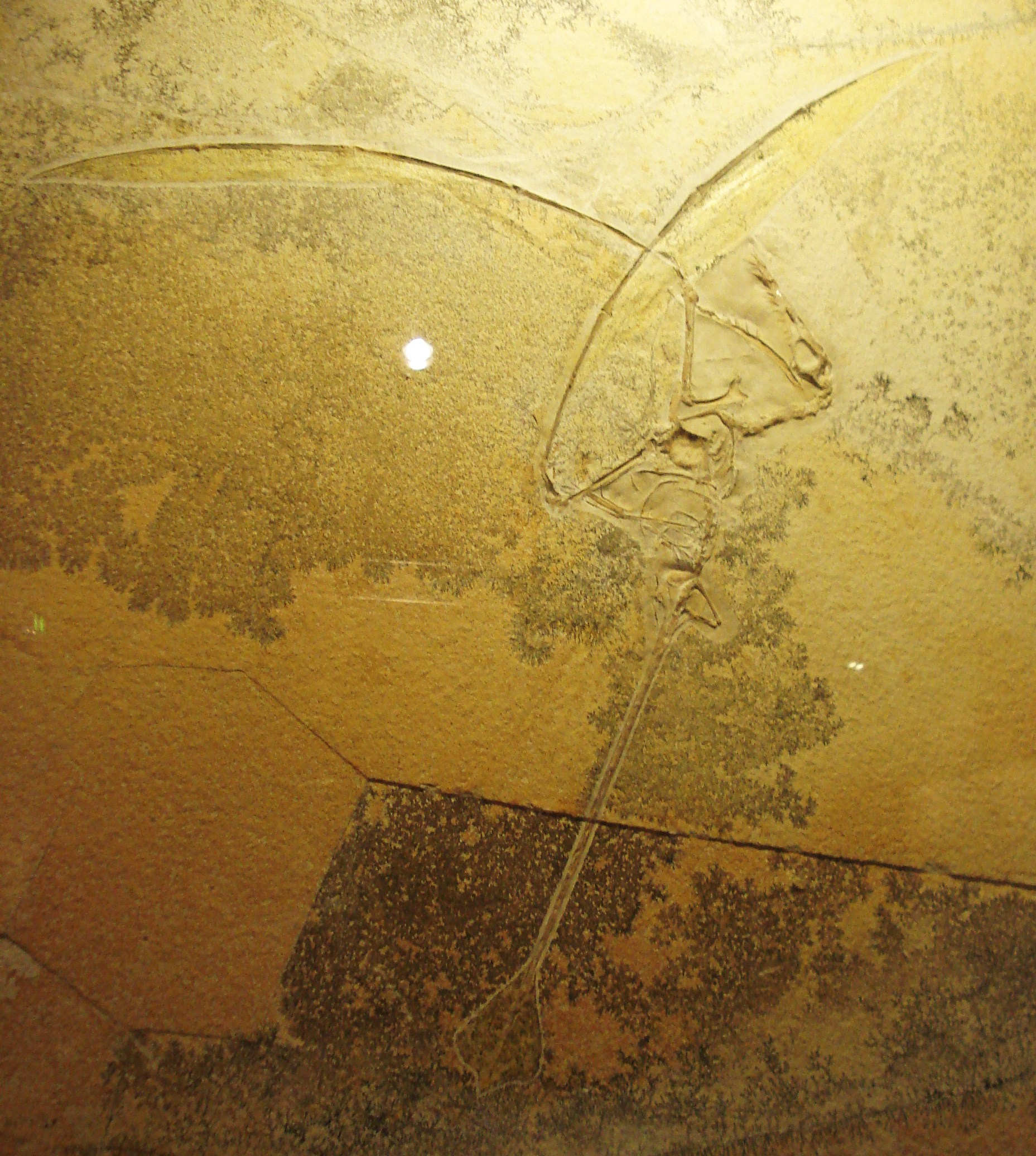 fossil of rhamphorhynchus